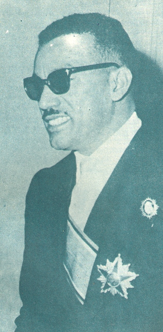 Libyan prime minister Muhammad Osman Said.